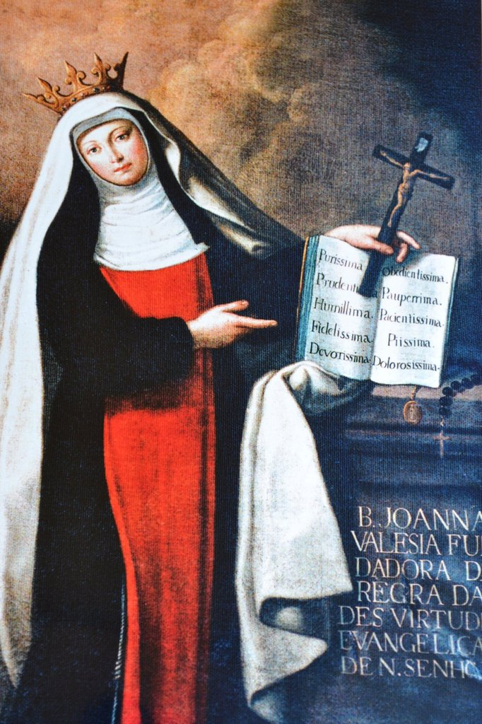 St. Jeanne de Valois, an 18th century painting by A. Pradão from the Marian monastery in Balsamao, Portugal.